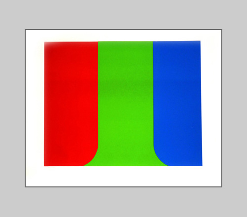 serigraphy. Made for the serigraphy portfolio made by the artist group GRAS in 1971.